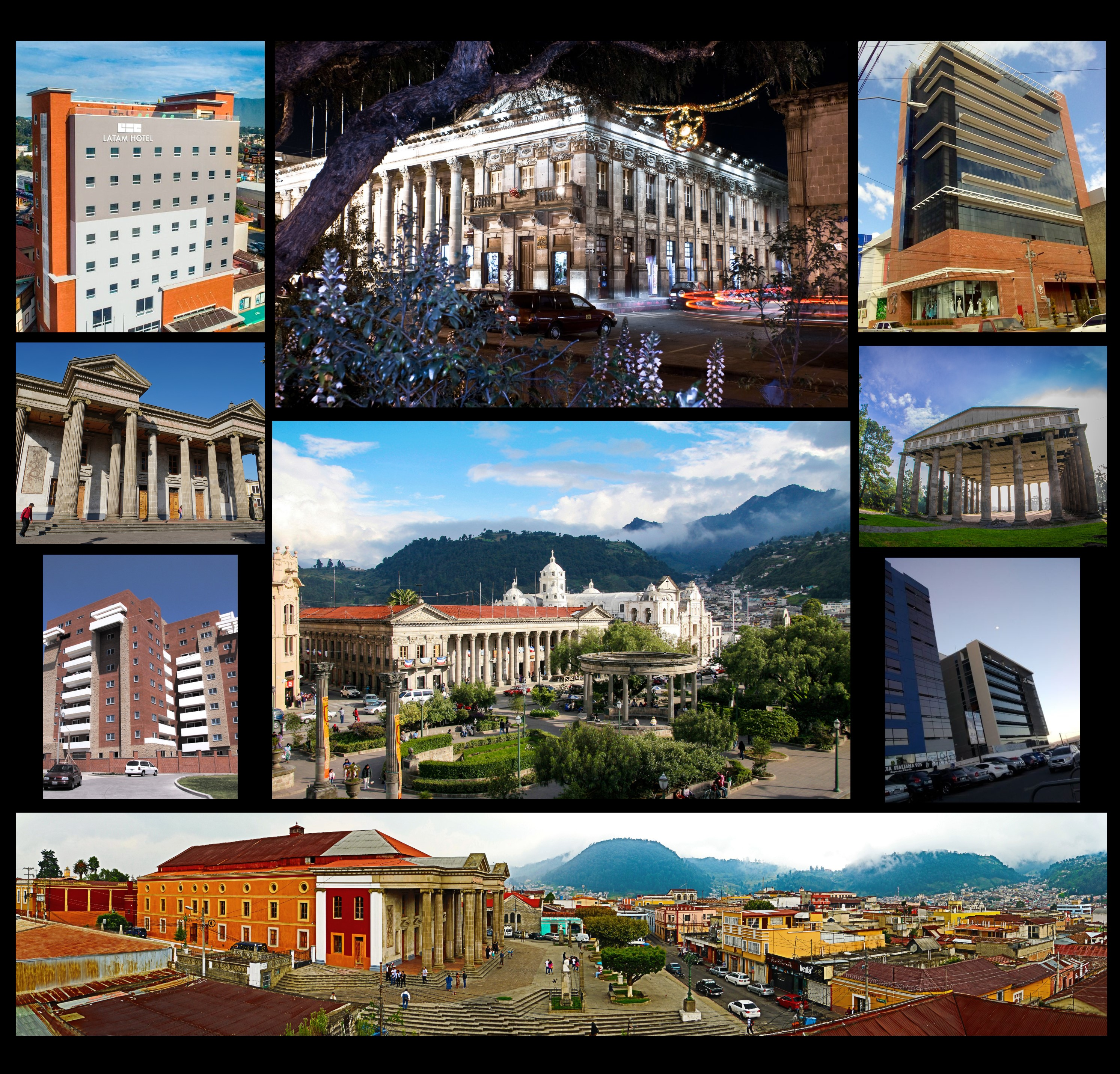 Quetzaltenango, one of the biggest and most important cities in Guatemala, known for its culture, safety and history.